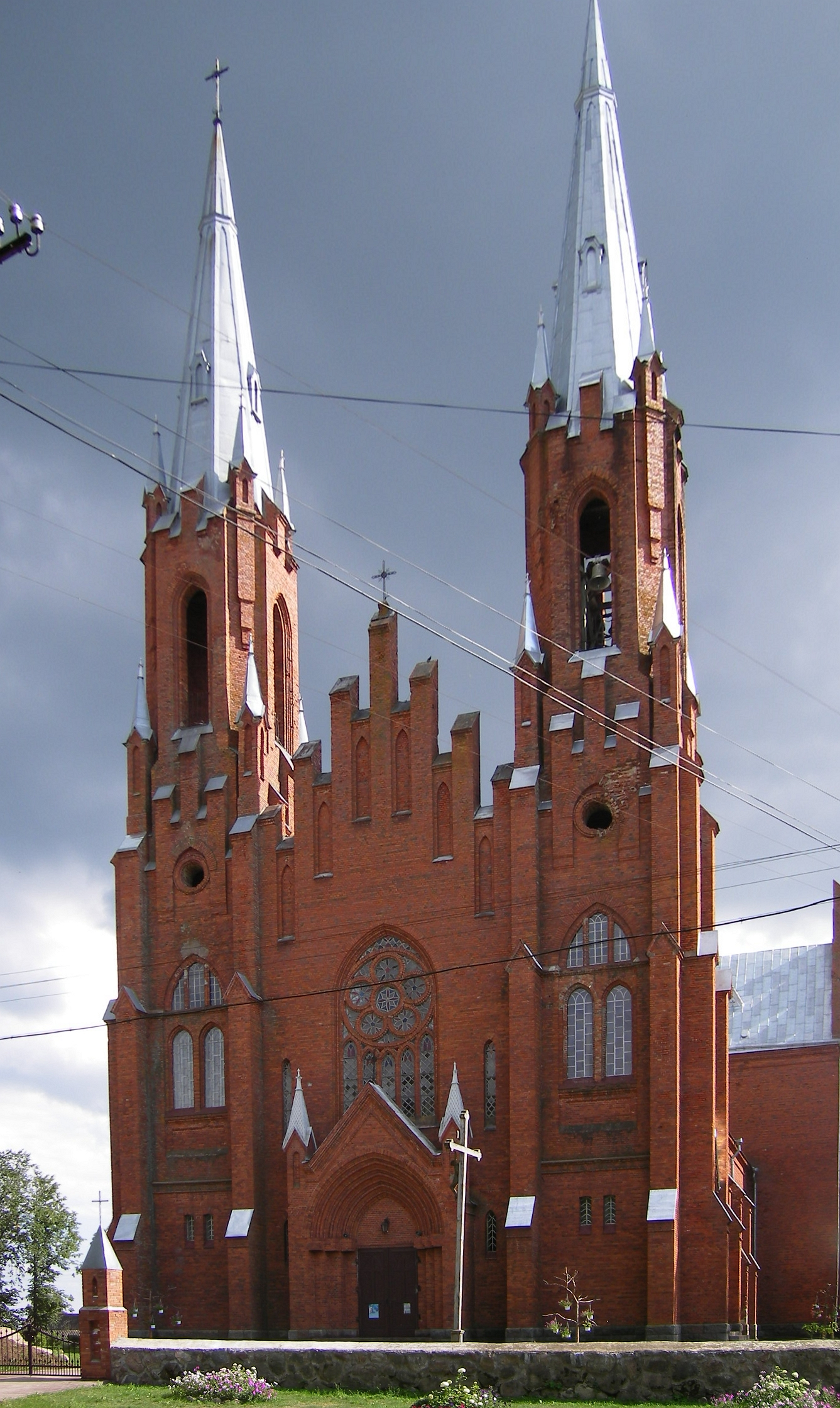 Catholic church of the Holy Trinity in Vidzy